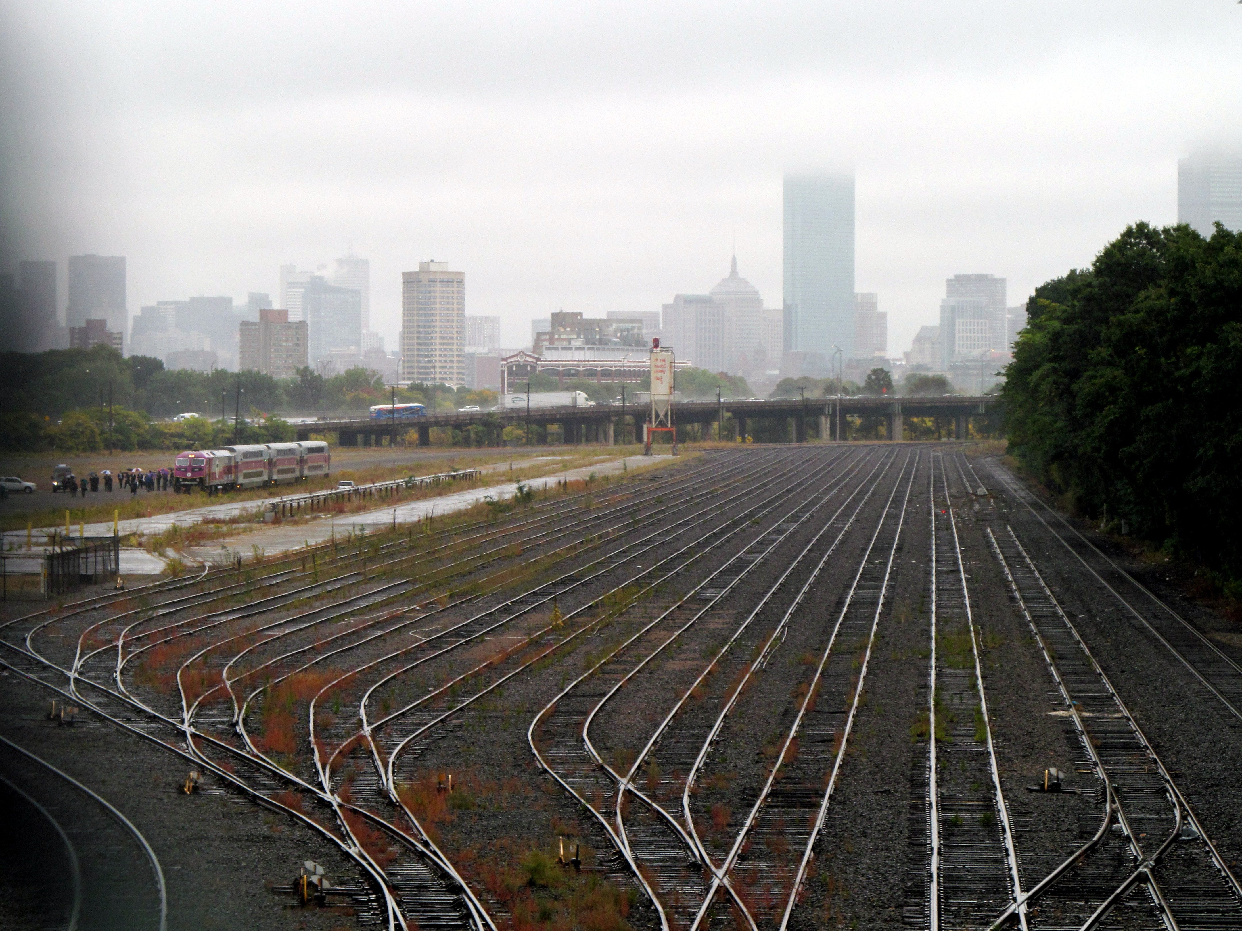 Beacon Park Yard in September 2014, with the train used for the announcement of West Station planning at left